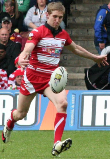 Sam Tomkins playing for the Wigan Warriors at Edinburgh's Murrayfield Stadium.